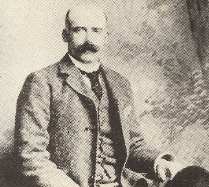 John Molteno Jr. Pioneering Cape exporter and influential politician. Cape Colony.